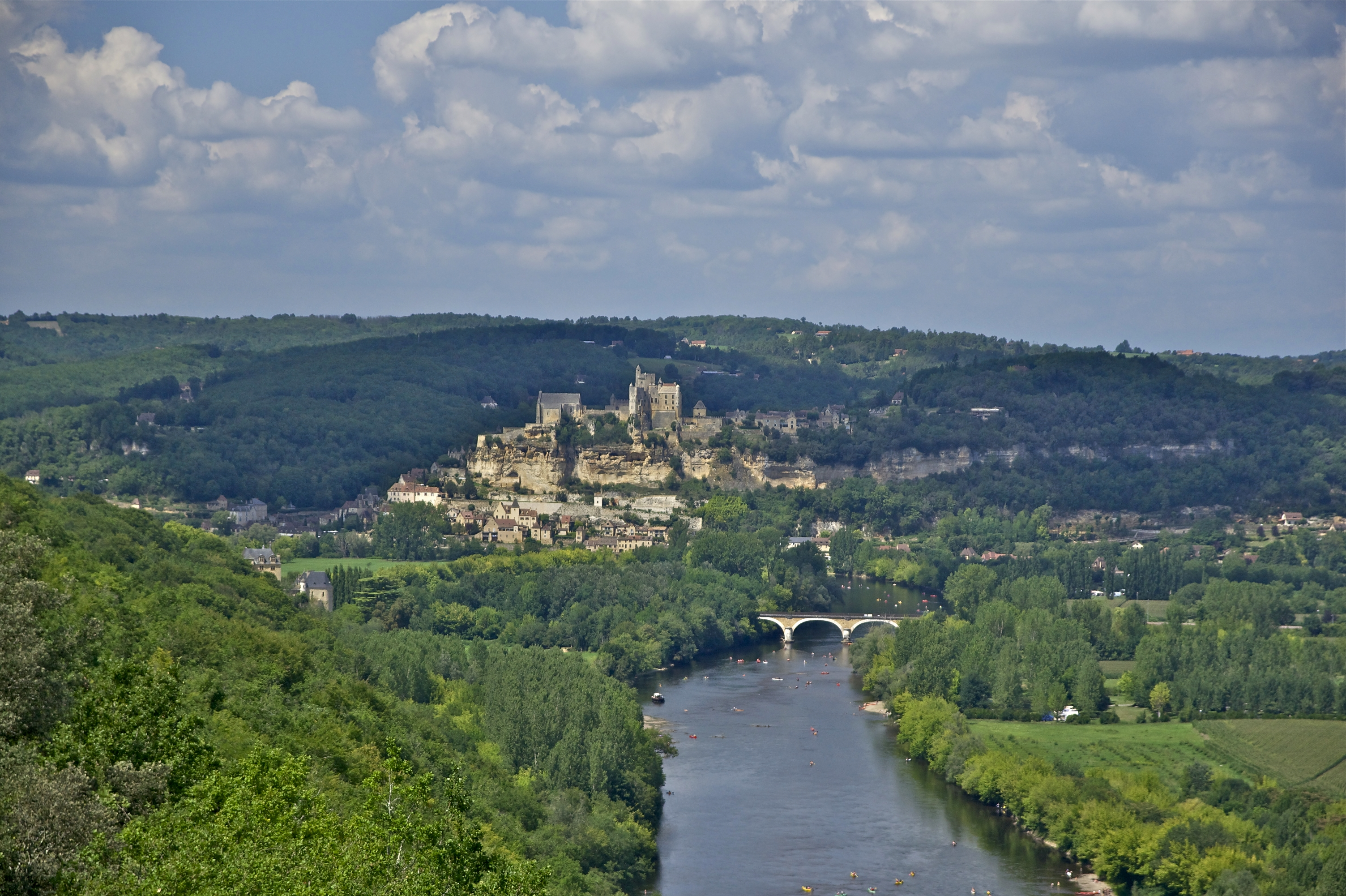 Castle and village of Beynac, the Dordogne river, seen from castle of Castelnaud, Dordogne, France.